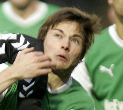 Clydesdale Bank Scottish Premier League - St Mirren vs Hibernian St Mirren's Michael Higdon concedes this foul on Hibernian's Lewis Stevenson during the 1-0 defeat to Hibernian at St Mirren Park, Paisley. Picture : Alasdair Middleton/Universal News & Sport (Scotland) Sunday 20th February 2011 Universal News and Sport (Europe) All pictures must be credited to (0ffice) 0844 884 51 22